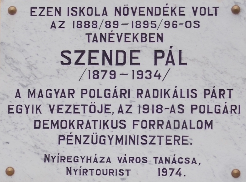 Lutheran high school or Kossuth Lajos high school. It was built in eclectic style in 1887 by plans of Bobula János and extended in around 1890. Its facade decoretd with plaques of former students. - 17-19. Szent István Street, Nyíregyháza, Szabolcs-Szatmár-Bereg County, Hungary.